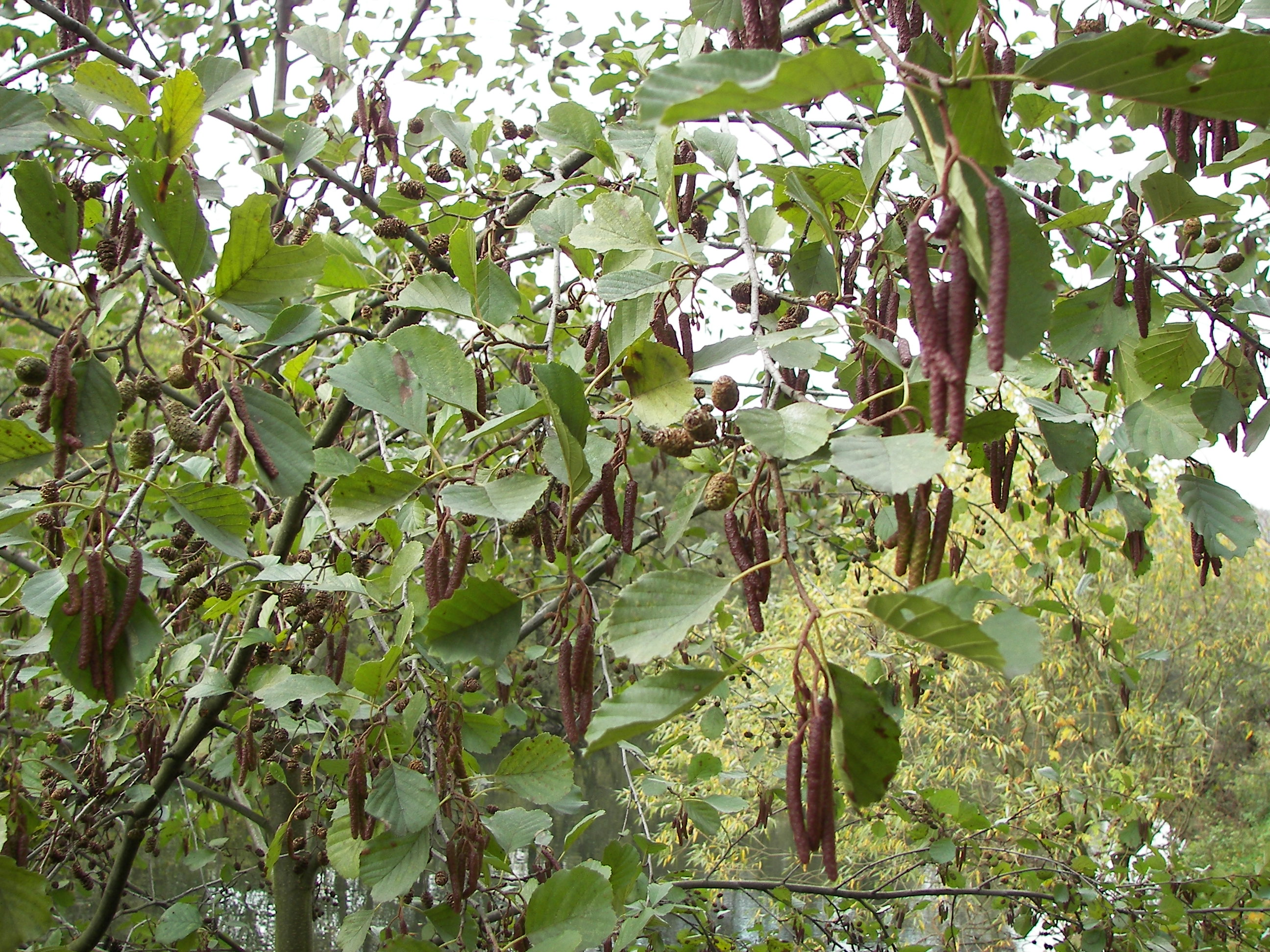 Black alder in Marburg, Germany.